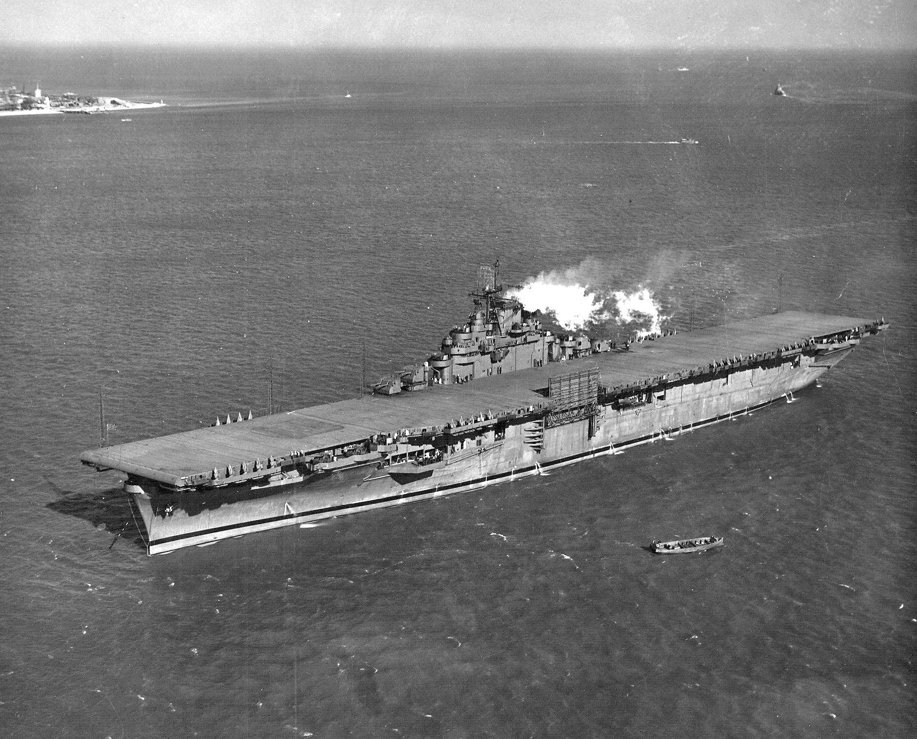 The U.S. Navy aircraft carrier USS Essex (CV-9) at Hampton Roads, Virginia (USA), on 1 February 1943.